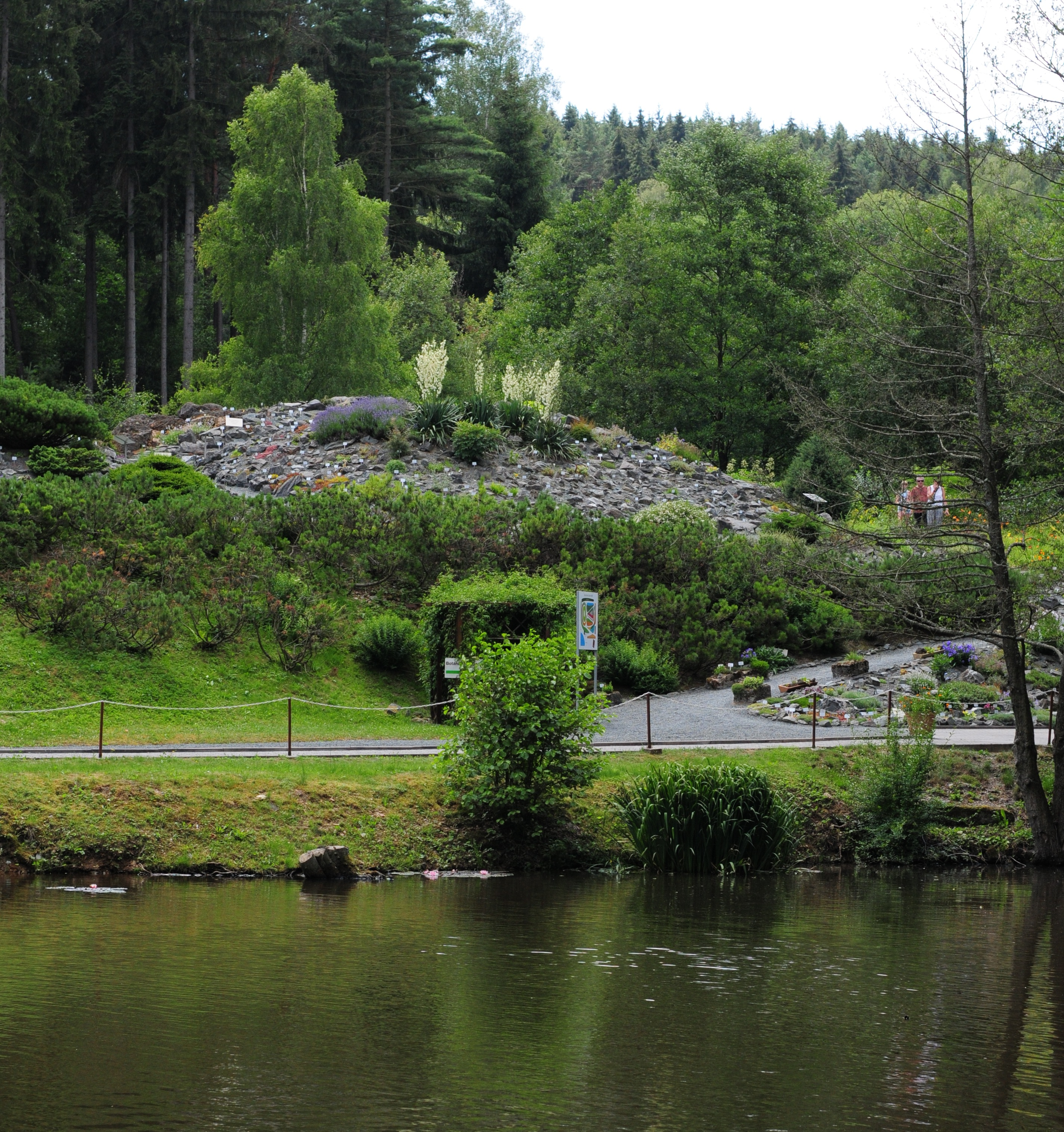 Adorf/Vogtland, Botanical garden (district Vogtlandkreis, Free State of Saxony, Germany)